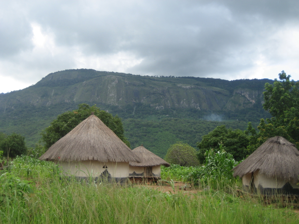 Traditional round-shaped houses in Chitsamba village, Manica province of Mozambique.